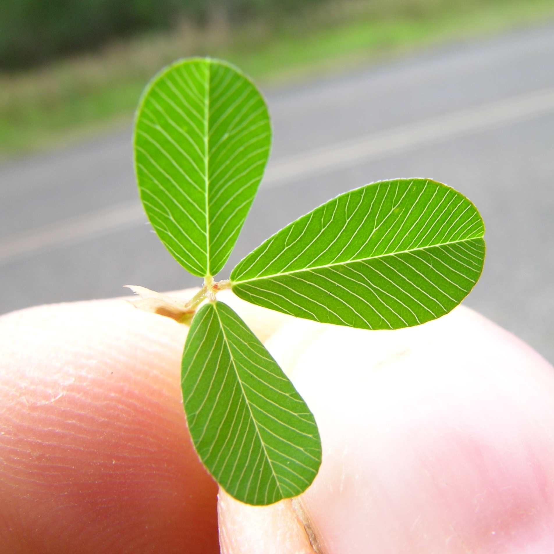 Leaves have 3 leaflets; each oblong to obovate, hairless and 8-15 mm long, with pale veins often contrasting with the green leaf. Stipules are ovate to lanceolate and 3–7 mm long.